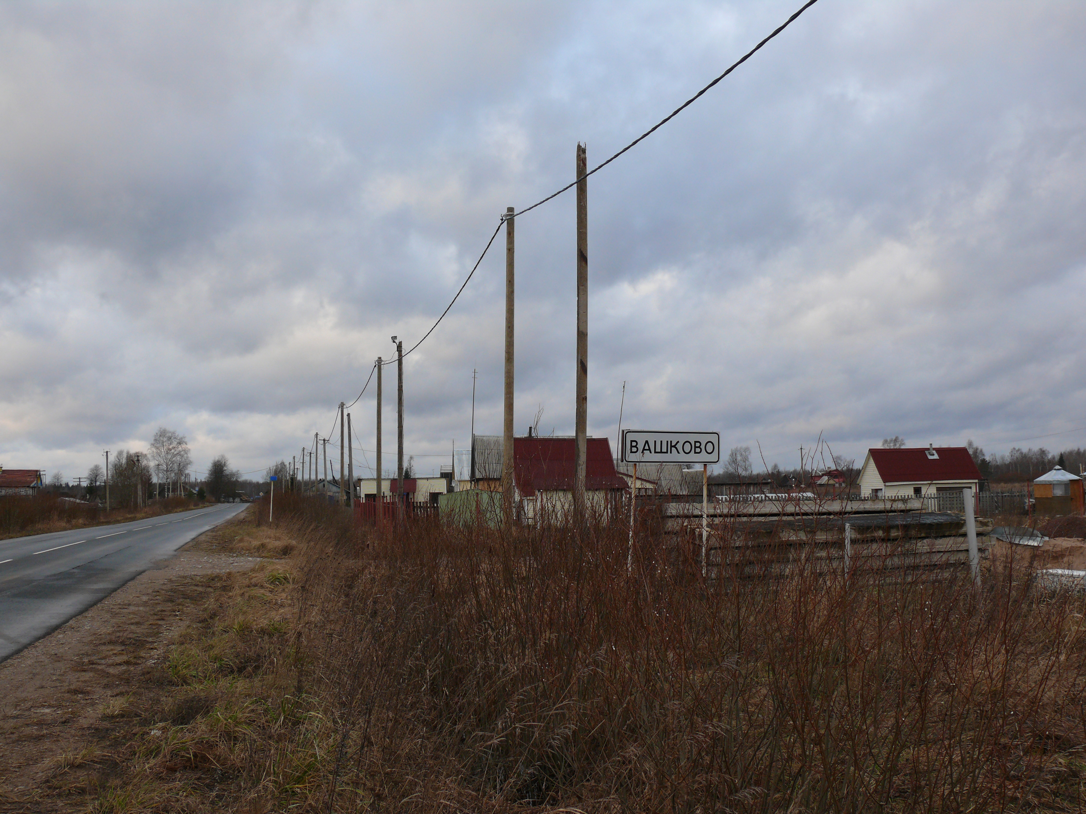 Vashkovo village. Novgorodsky district, Novgorod oblast, Russia